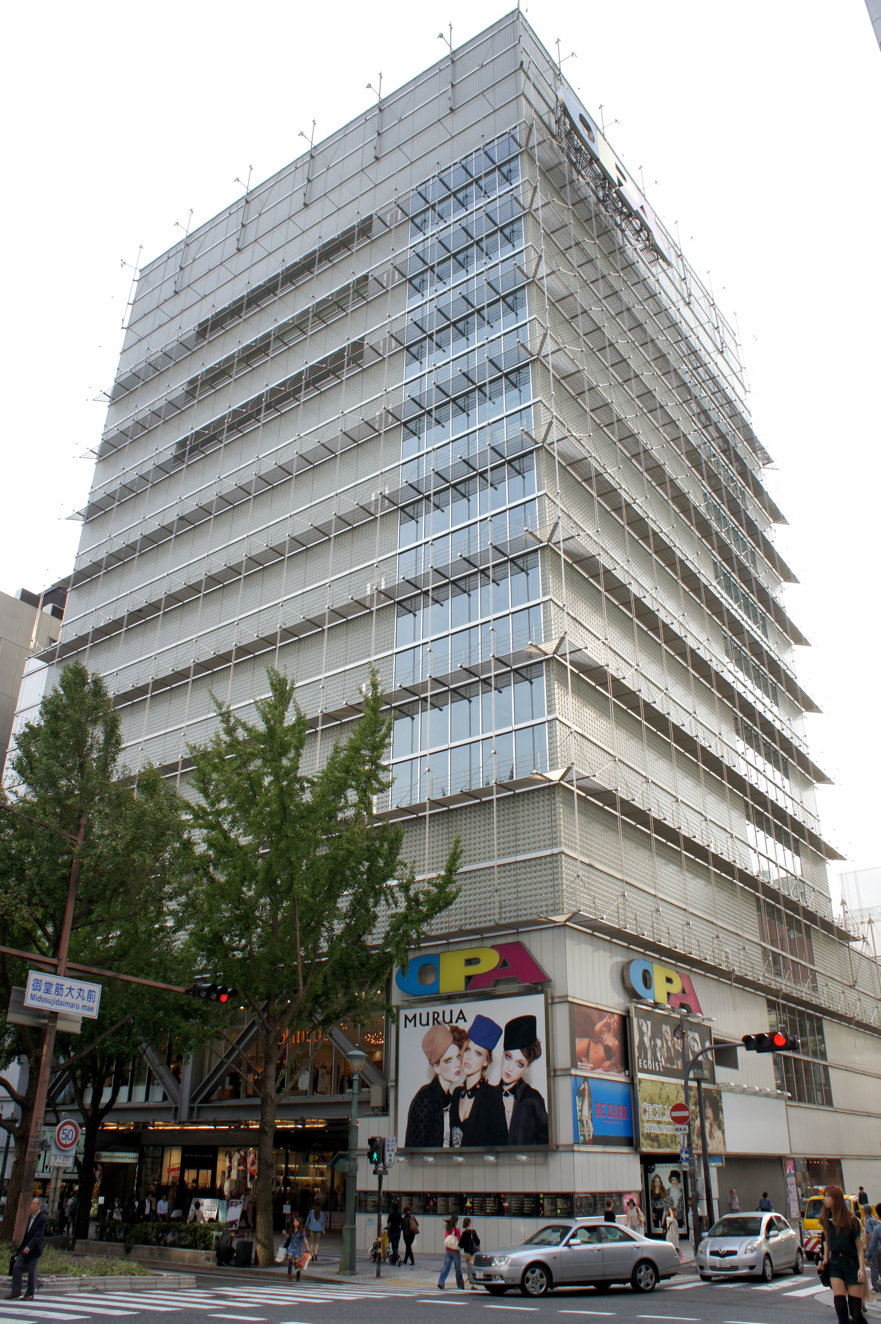 Shinsaibashi OPA, 1-4-3 Nishi-shinsaibashi Chuo-ku Osaka-City Osaka Japan.